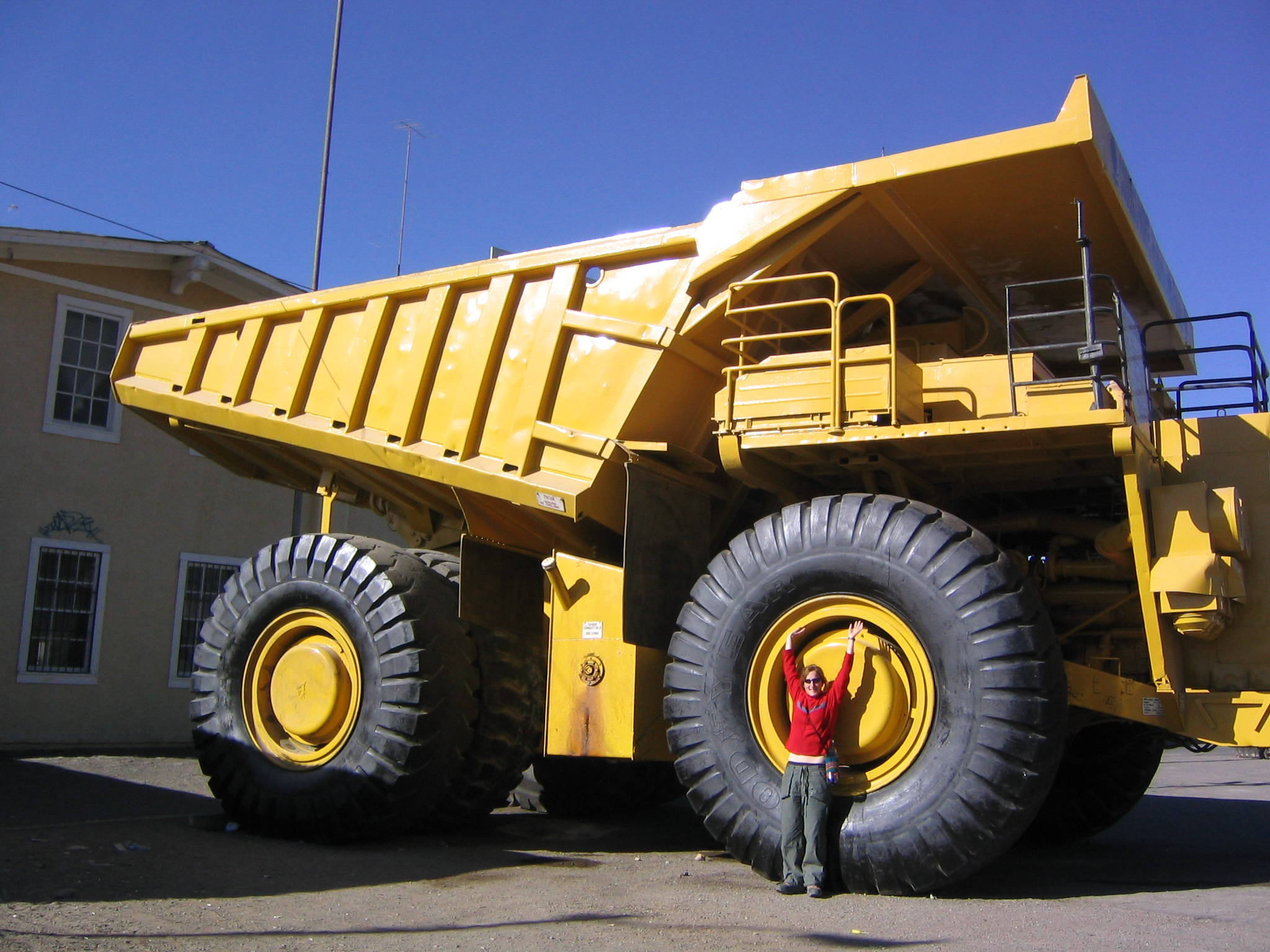 Massive dump truck servicing the Chuquicamata Copper Mines in Northern Chile.